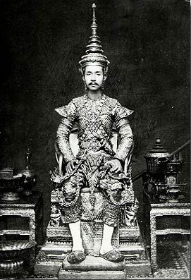 Chulalongkorn on his throned in full regalia